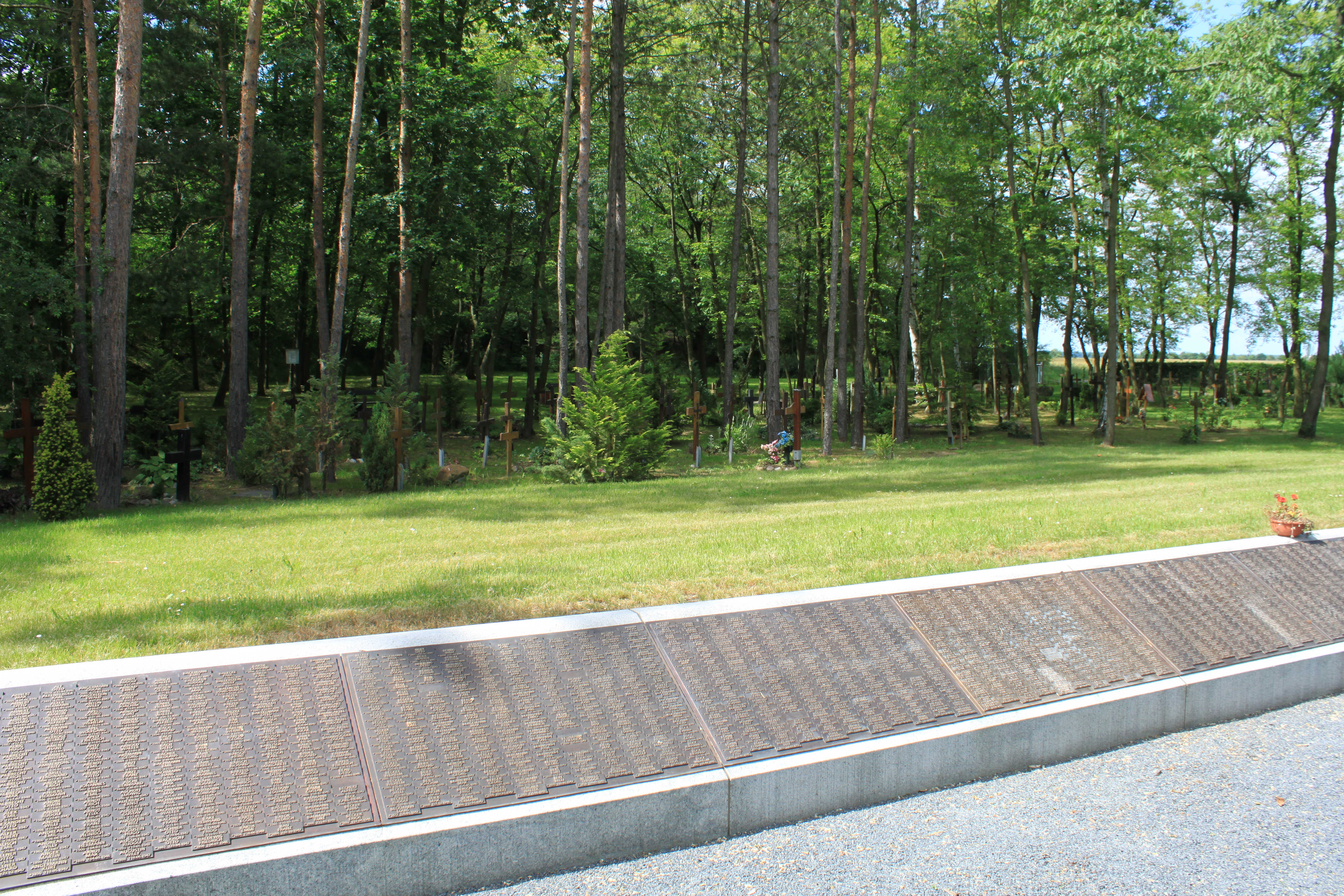 Memorial of the Stalag IVB/Speziallager Nr. 1 Mühlberg/Elbe